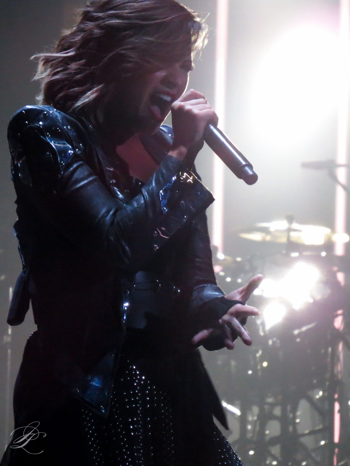 Demi Lovato performs at the Pepsi Center in Denver, CO on September 25, 2014.